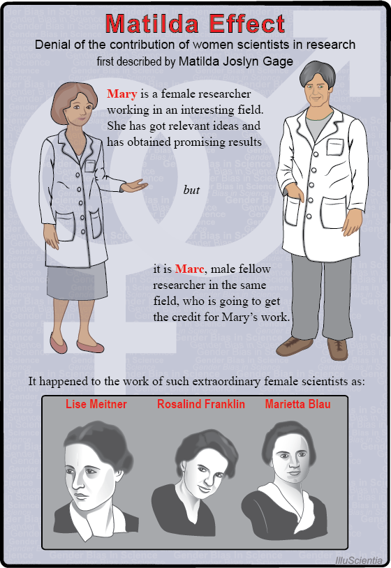 graphical summary of the Matilda effect concerning denial of contributions of women in science